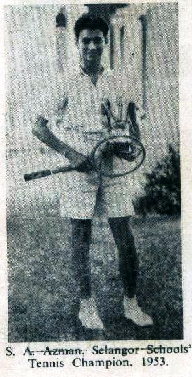 S.A. Azman, Pemain Tenis Kebangsaan, 1954, Maxwell School